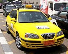 City cab in cairo